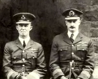 ACdre R. Williams (Chief of the Air Staff), and WgCdr W.H. Anderson (Air Member for Supply) of the RAAF Air Board, pictured in November 1930.